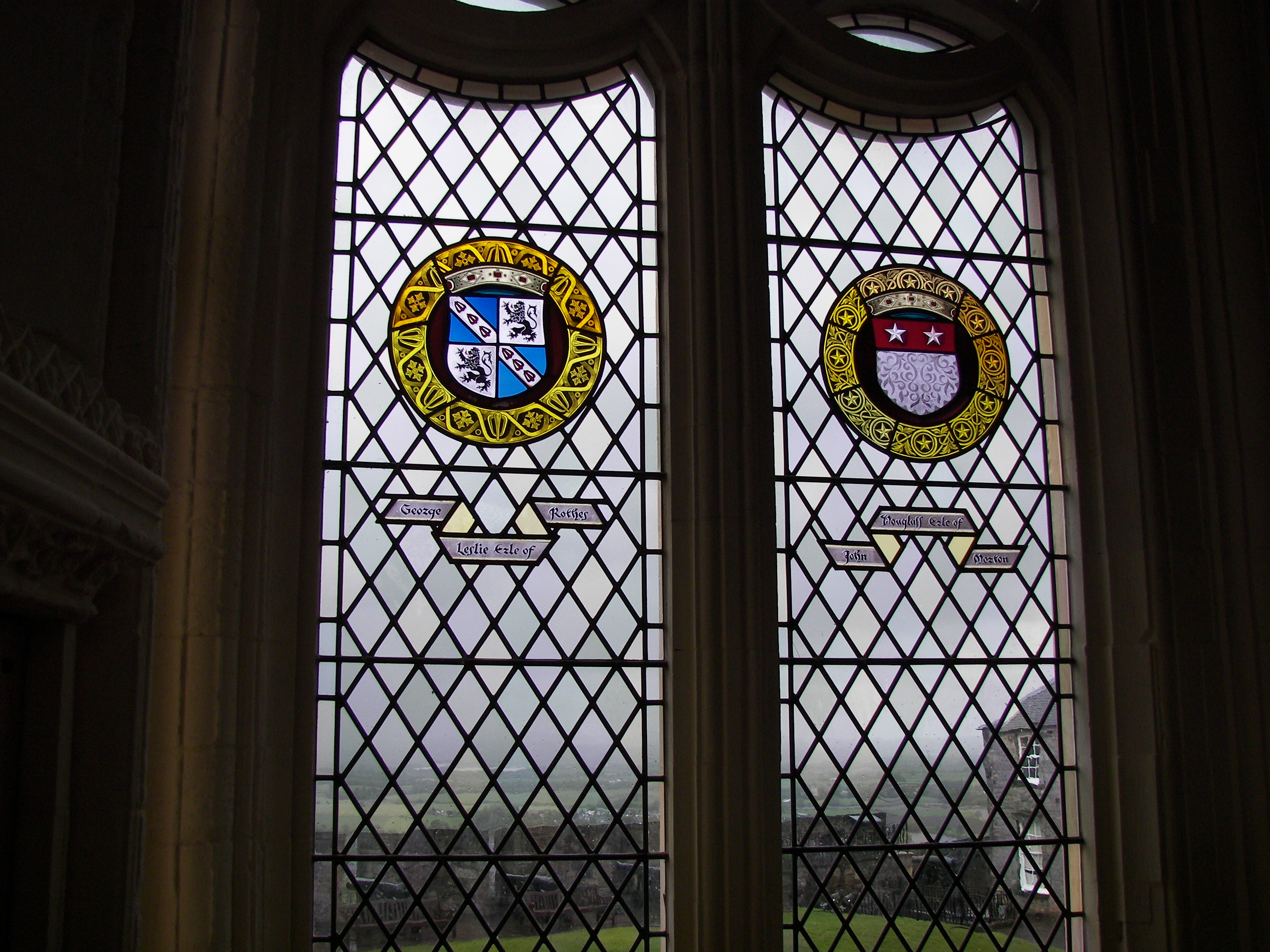 Window in the Great Hall at Stirling Castle.